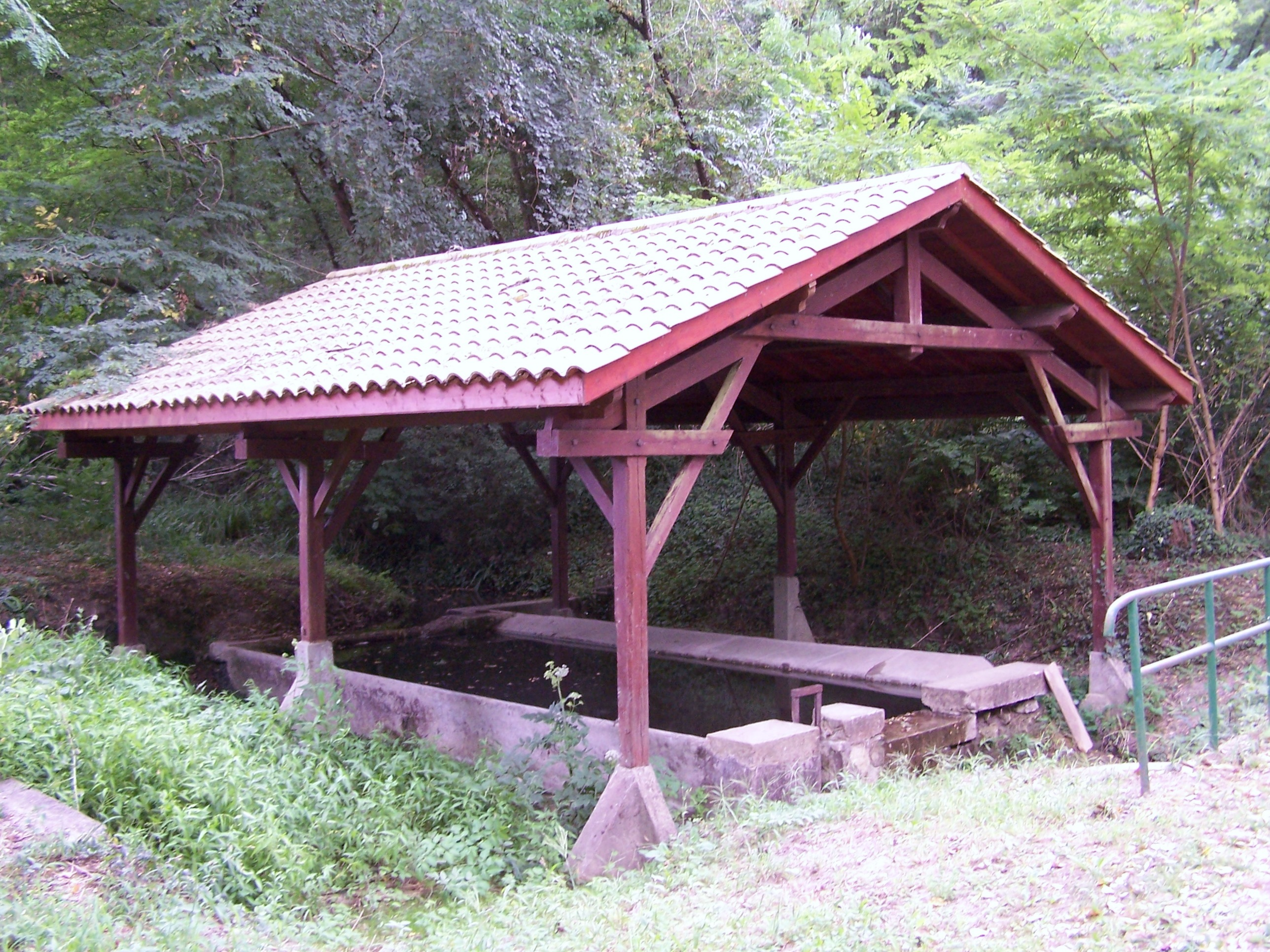 Wash house of Bieujac (Gironde, France)